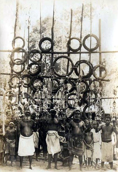 Sing-Sing (probably Tolai people) at the town of Rabaul, Gazelle Peninsula of New Britain, Papua New Guinea, with display of traditional tambu (tabu, diwarra) shell money on coils (loloi). Original photograph, 1913.